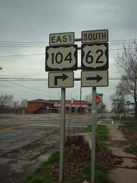 Sign assembly for U.S. Route 104 and U.S. Route 62 on 2nd Street in Niagara Falls, New York. US 104 is now New York State Route 104.